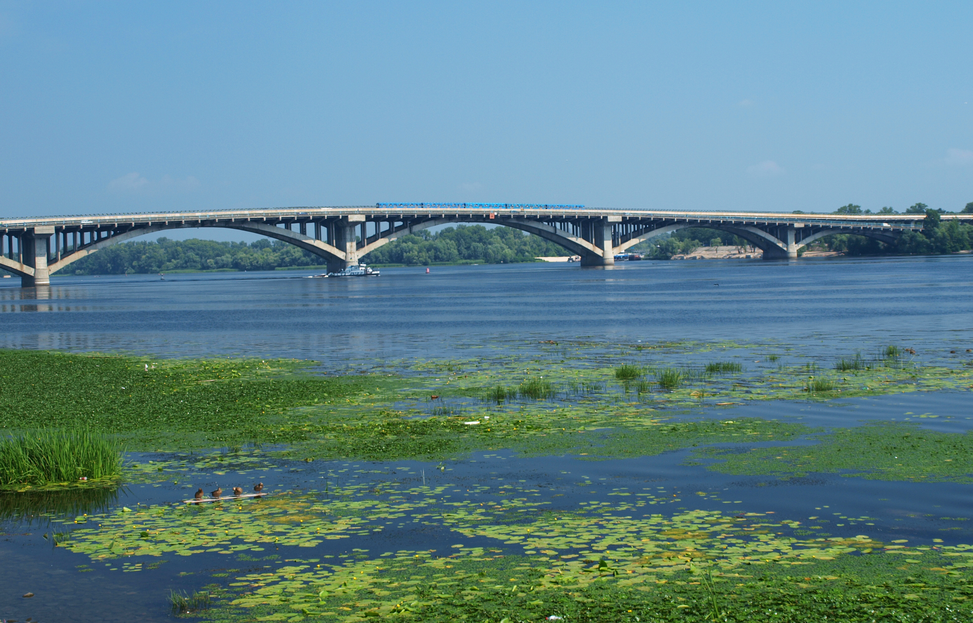 Dnepro in Kiev. Ukraine.